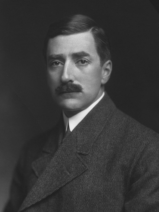 Richard von Foregger (27 June 1872 – 18 January 1960), American anesthesiologist